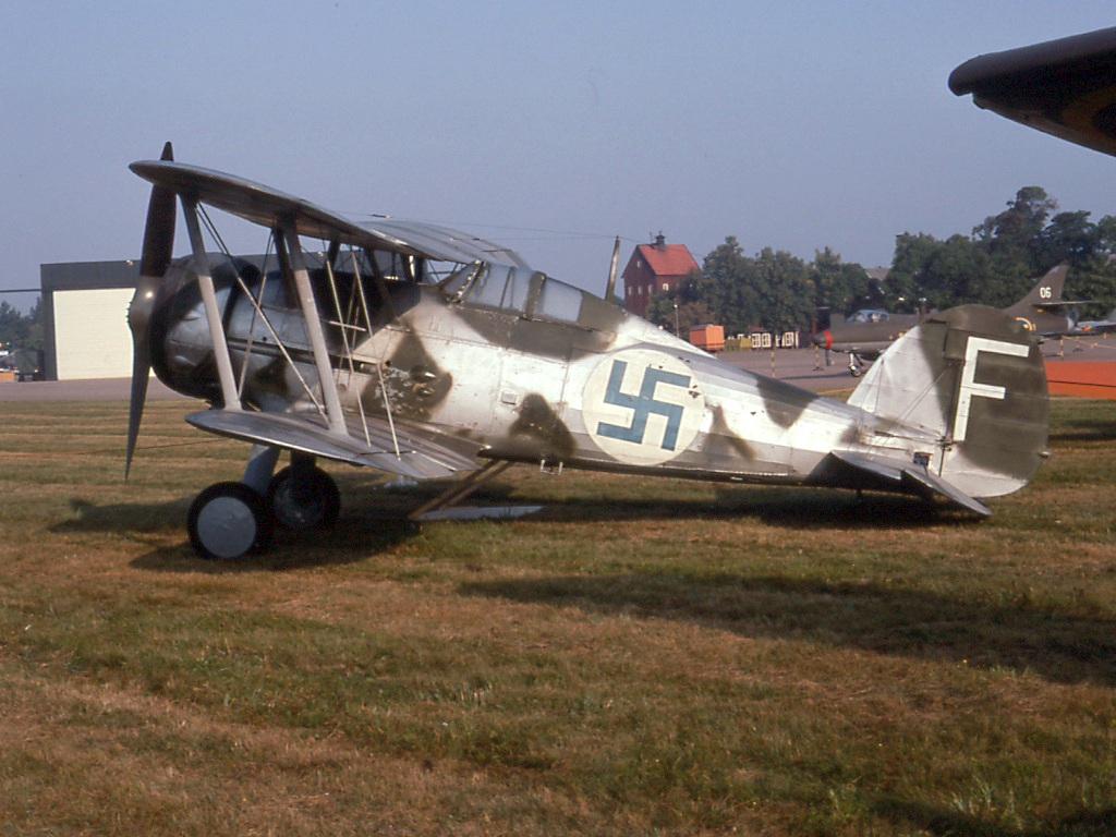 Gloster Gladiator, Swedish Air Force J 8